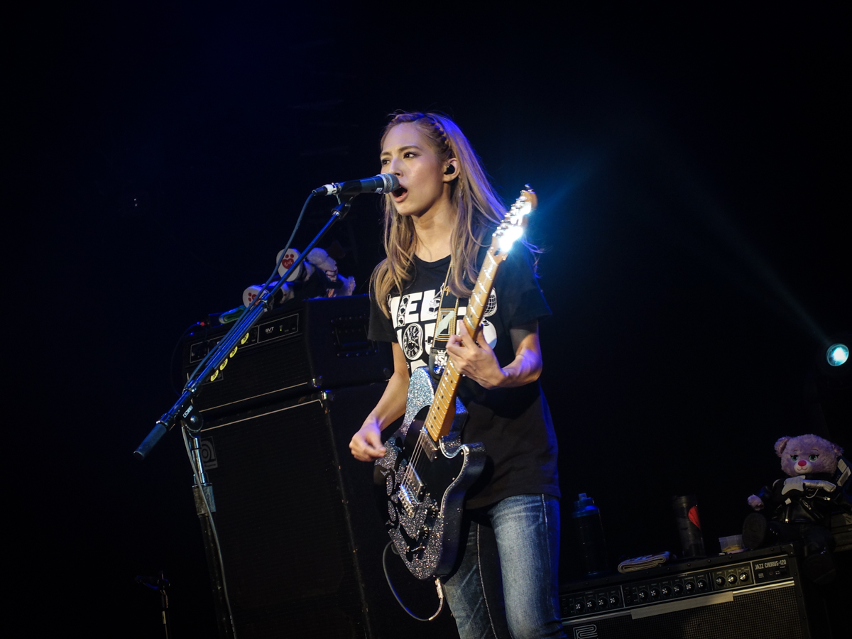 SCANDAL